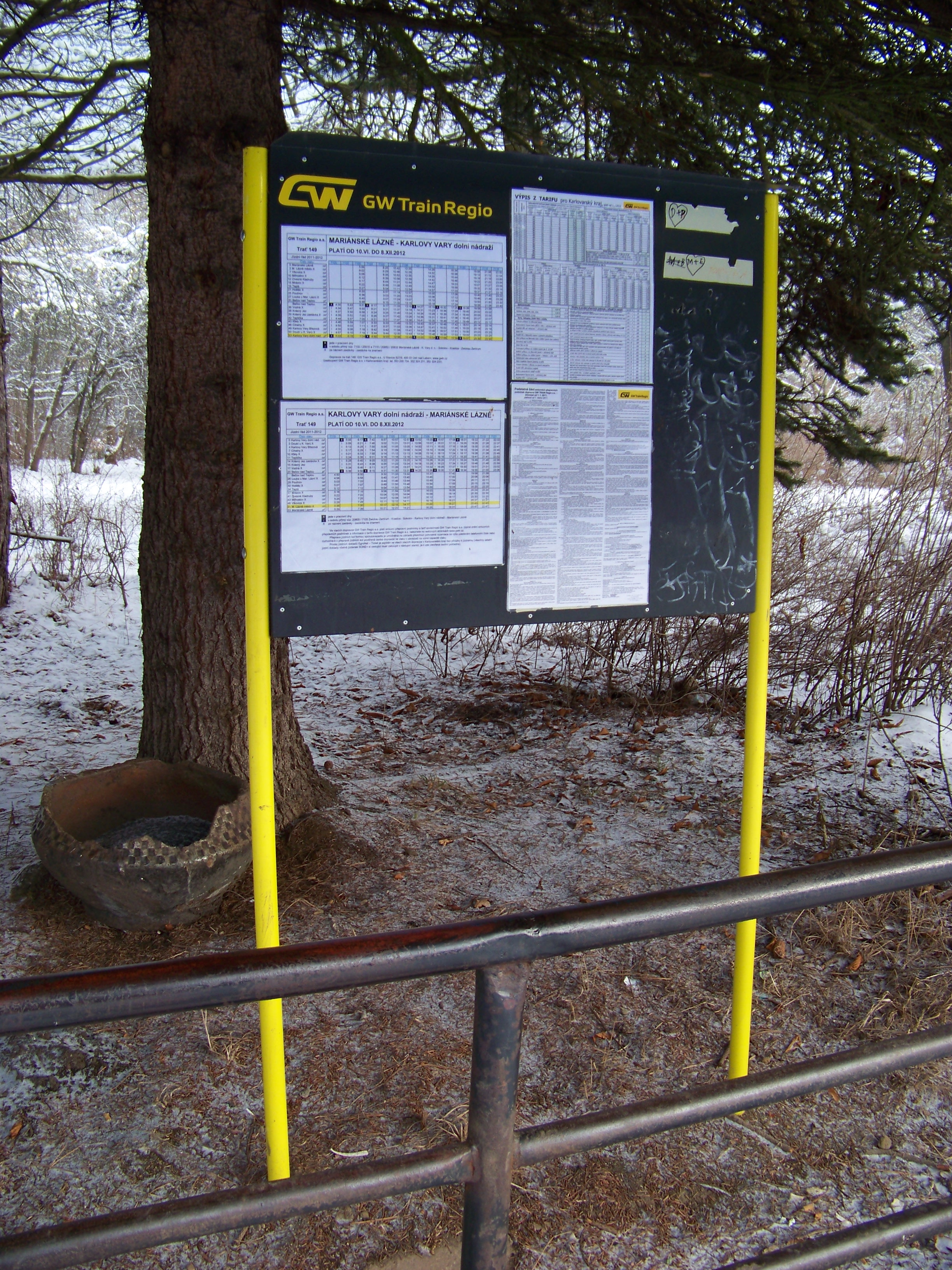 Mariánské Lázně-Úšovice, Cheb District, Karlovy Vary Region, the Czech Republic. Train stop "Mariánské Lázně město", an information board.